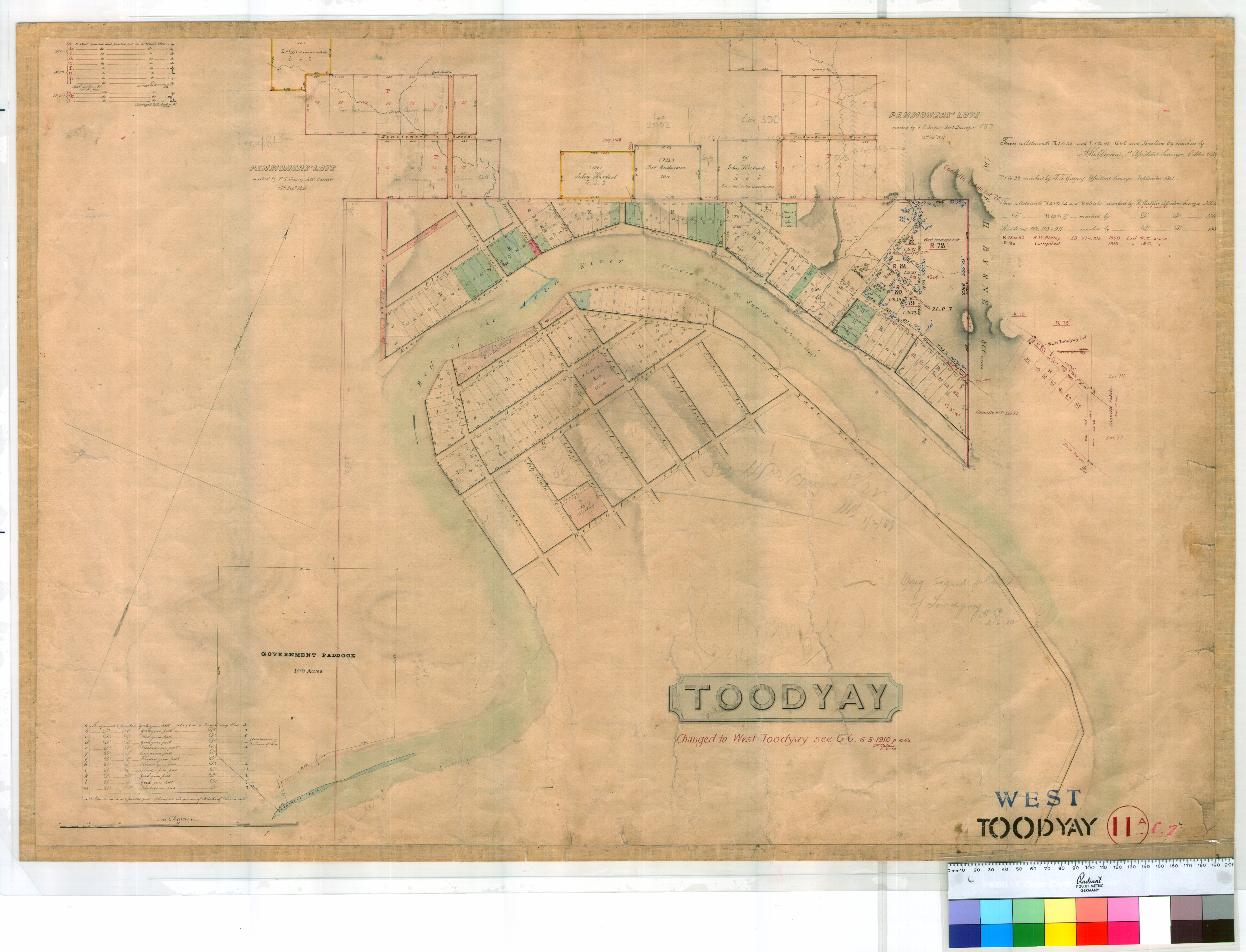 Reference code: AU WA S235- cons3868 395 Title: Toodyay West 11A. Plan of West Toodyay showing Avon River and surrounding Lots between North Street and Avon River and Wellington Street and the Avon River [scale: 6 chains to an inch, Tally No. 005859]. Date: 1910-12-31 (Accumulation)